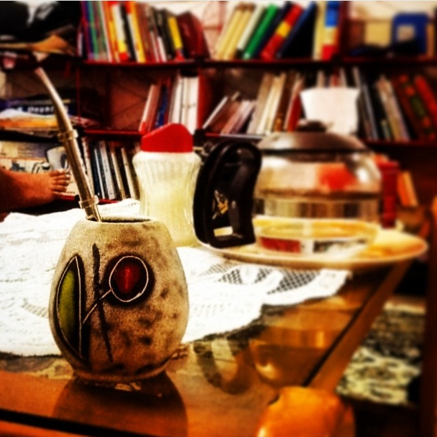 This is a photo of Yerba Mate, a traditional beverage in South America. The photo is taken in Iran, Qom.